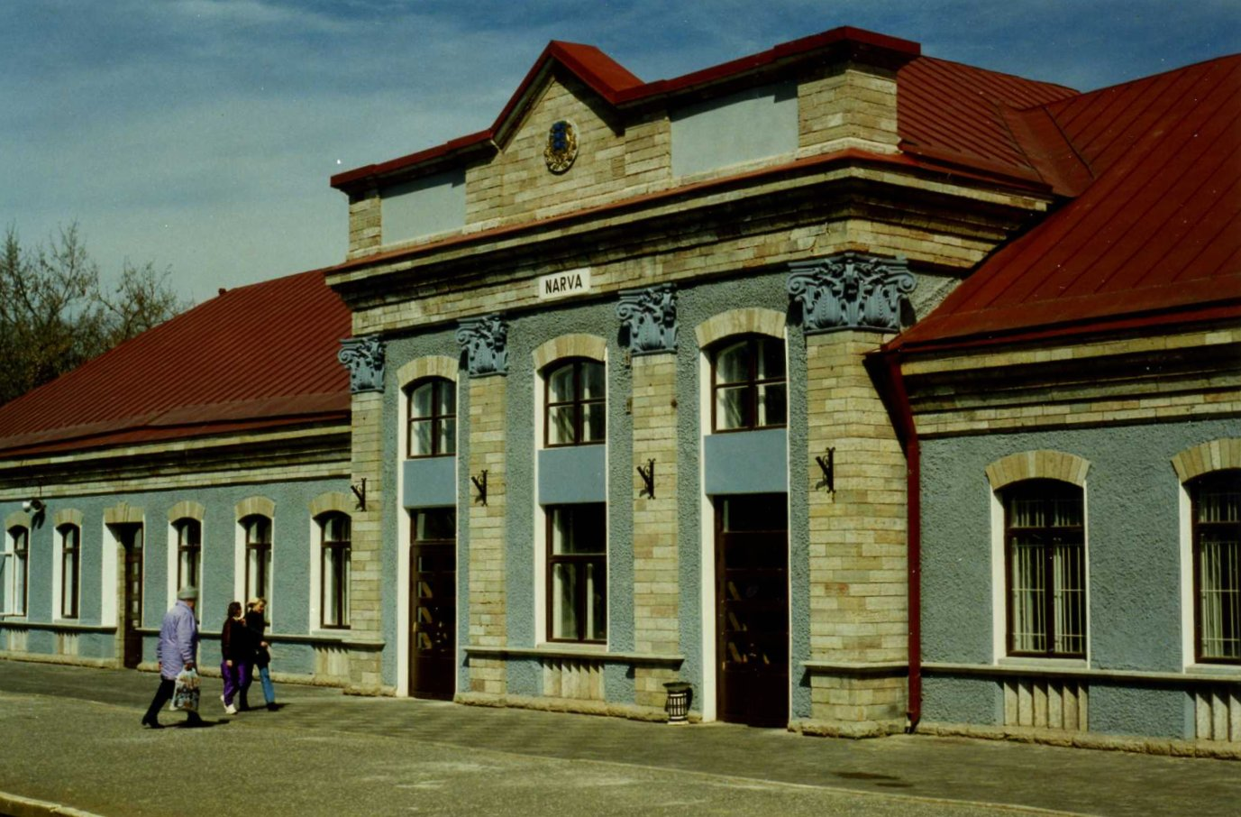 A rare sunny interlude in Narva,showing off the restored station to good effect. However, by 1999, from @LHOON's photo of the same view a portico has been built out. (see below for reproduction) The important railway between St Petersburg and Baltisch Port (Paldiski) in the russian empire was completed in 1870. Narva is 209.6 km from Tallinn.